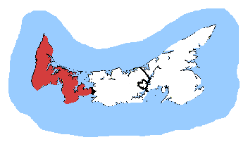 Map of the Egmont electoral district. Based on Earl Andrew's maps, created by SimonP.